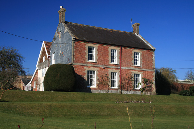 Manor Farmhouse - Stapleford This is a Grade II Listed farmhouse dating from the late C17, although the front range pictured here, dates from about 1860.